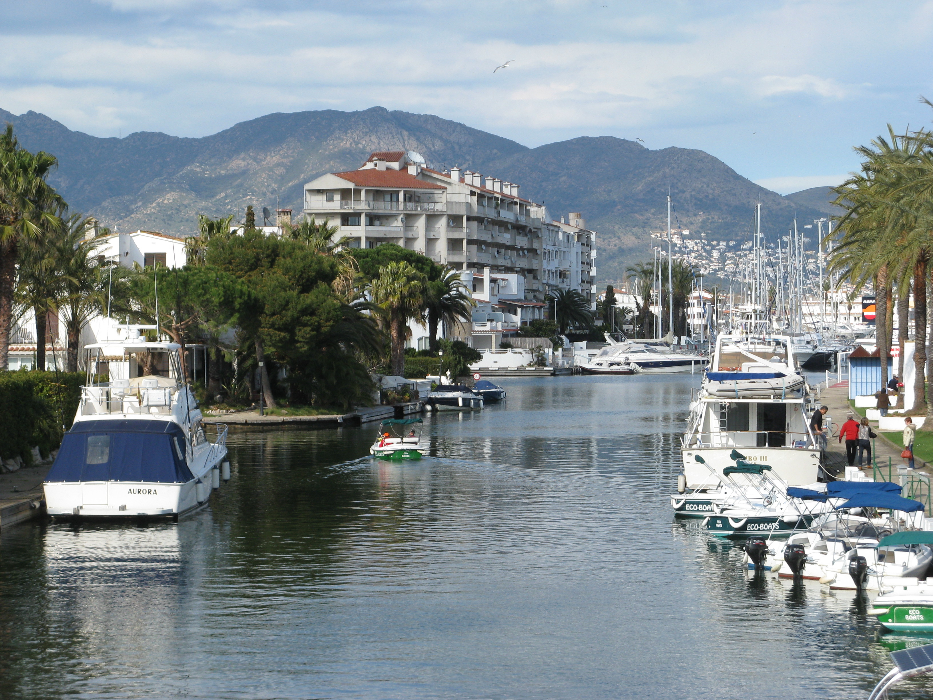 Empuriabrava.